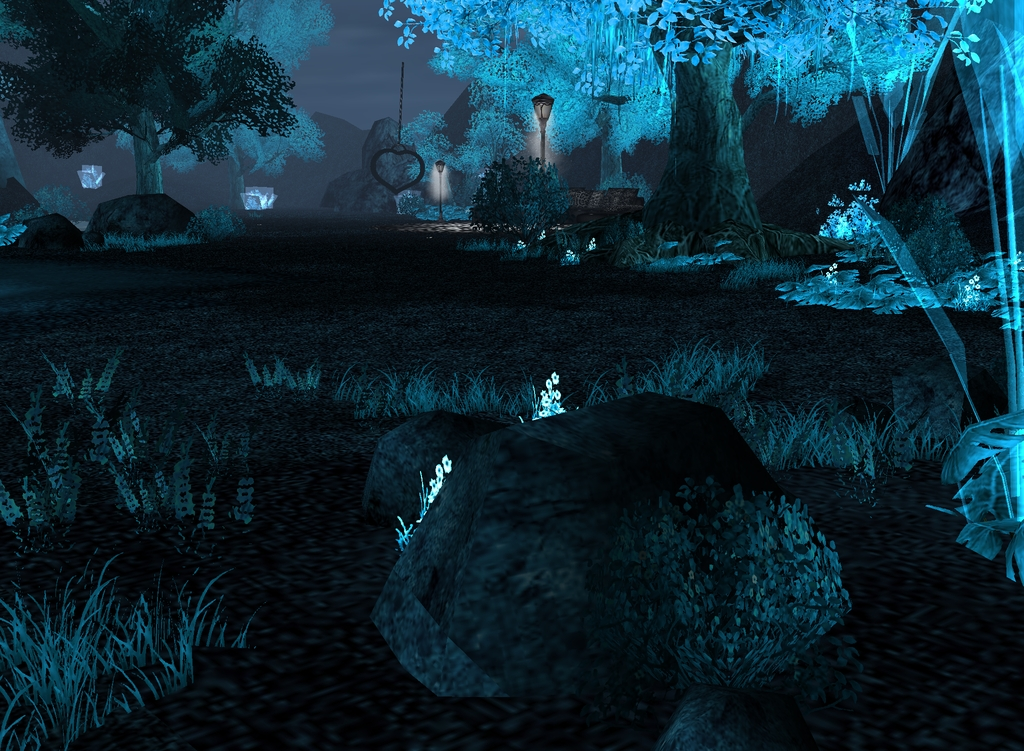 bonito